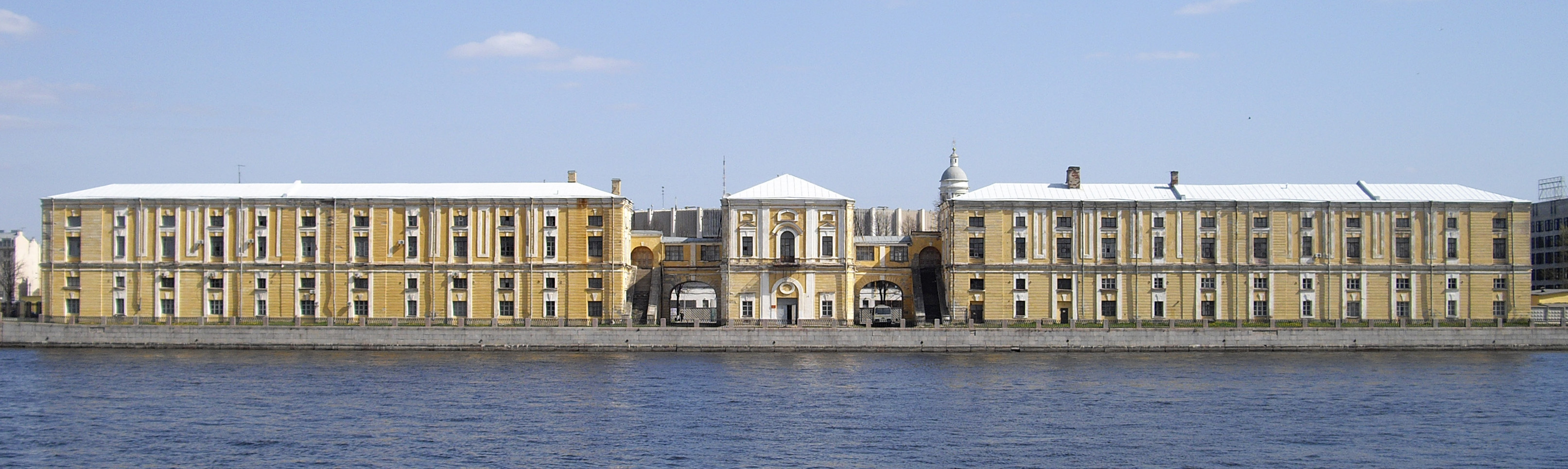 "Tuchkov buyan" - former hemp storehouse at the Malaia Neva bank (Saint-Petersburg, Russia). Architect Antonio Rinaldi, 1763—1772.